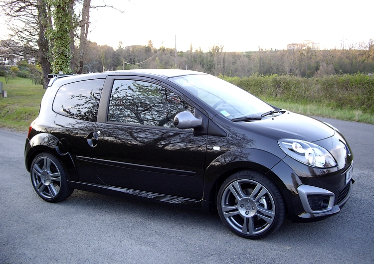 twingo rs chassis cup